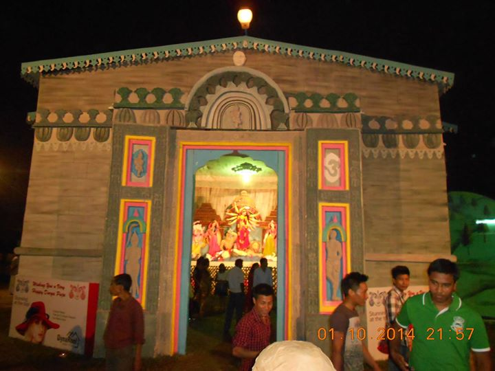 Nambari Durga Puja, 2014